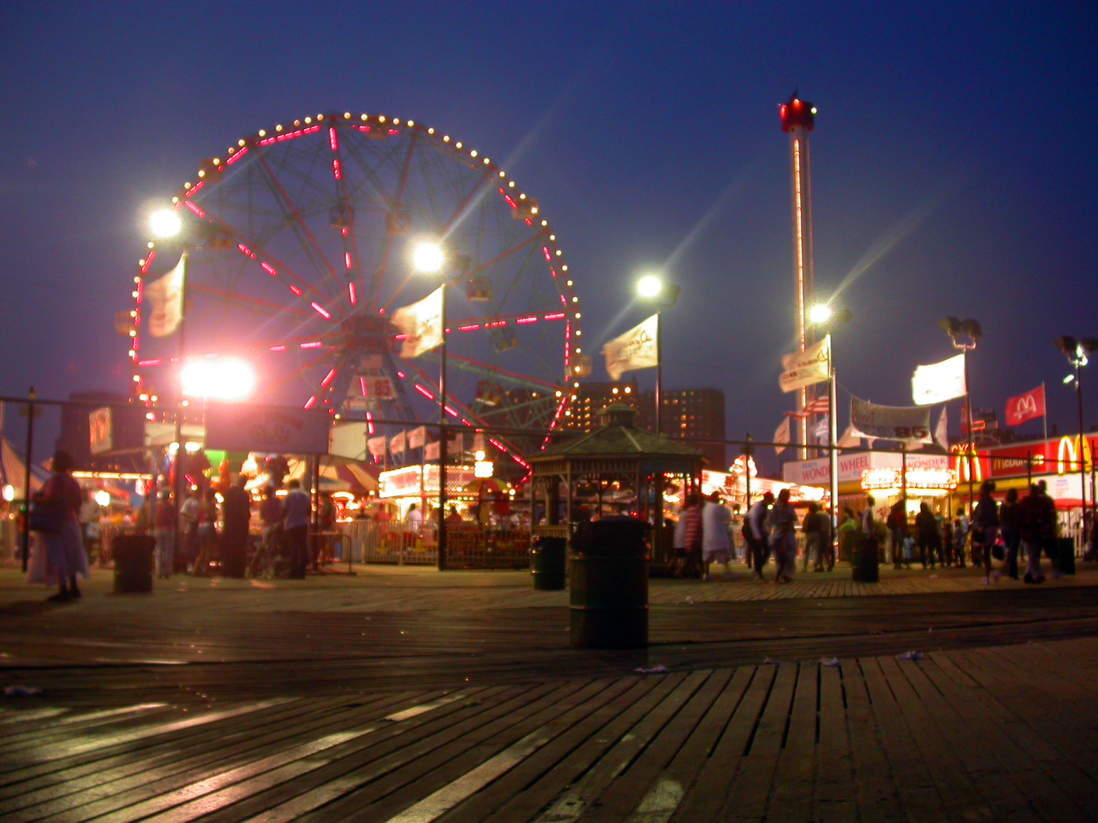 Astroland in a summer night, 2005